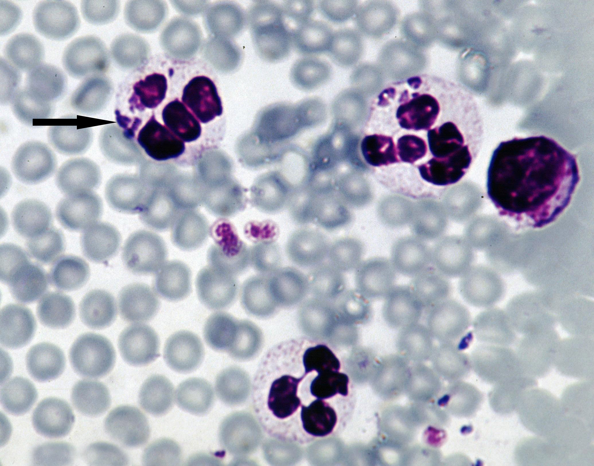 This bacterium is transmitted by Ixodes ricinus ticks to deer, sheep and cattle. It specifically infects the neutrophil white cells of the host's blood, causing a suppression of immunity against bacterial infection.